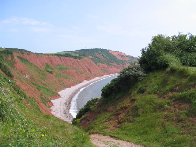 Littleham Cove. A view looking North east over the cliffs at Littleham Cove on the South West Coastal path